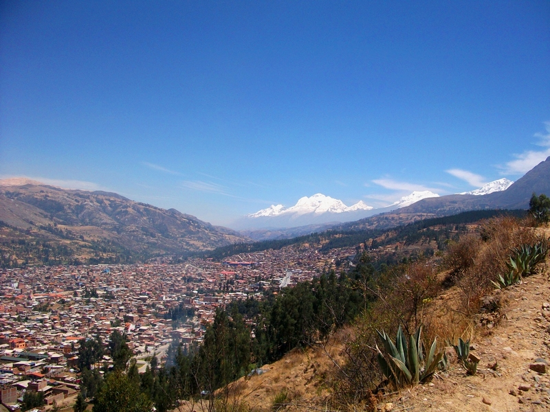 vista panoramica de Huaraz, con el Nevado Huascaran al fondo